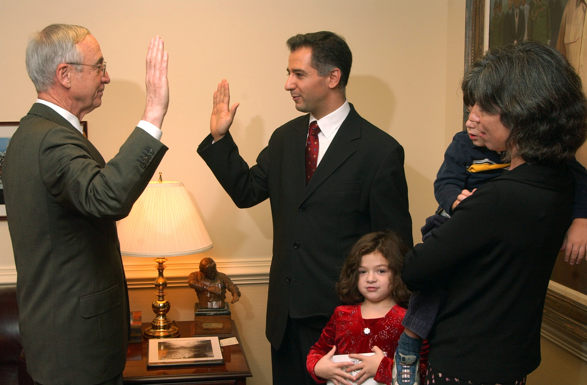 Washington, DC. (Oct. 26, 2004) - Secretary of the Navy (SECNAV), Gordon England, swears-in the Honorable Richard Greco, Jr., as Assistant Secretary of the Navy (Financial Management and Comptroller). Greco will be responsible for all financial management activities and operations of the Department of the Navy. U.S. Navy photo by Chief Journalist Craig P. Strawser (RELEASED)